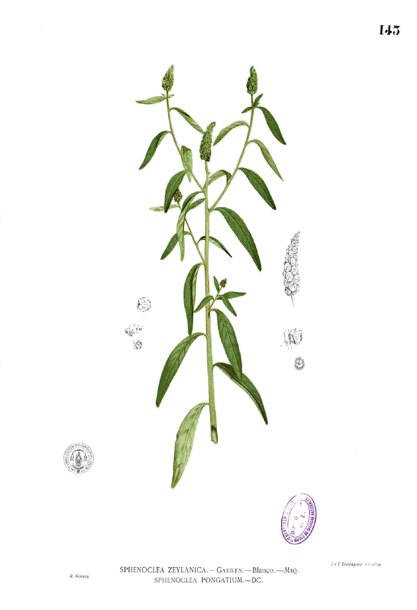 Plate from book